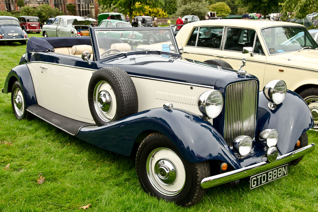 Arley Hall Classic Car Show 23/09/2012